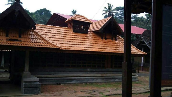 shivaparvathy temple in pathanamthitta dist